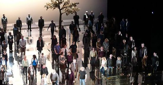 Deborah Warner's production of Georg Friedrich Händel's 1741 oratorio Messiah for the English National Opera in London.